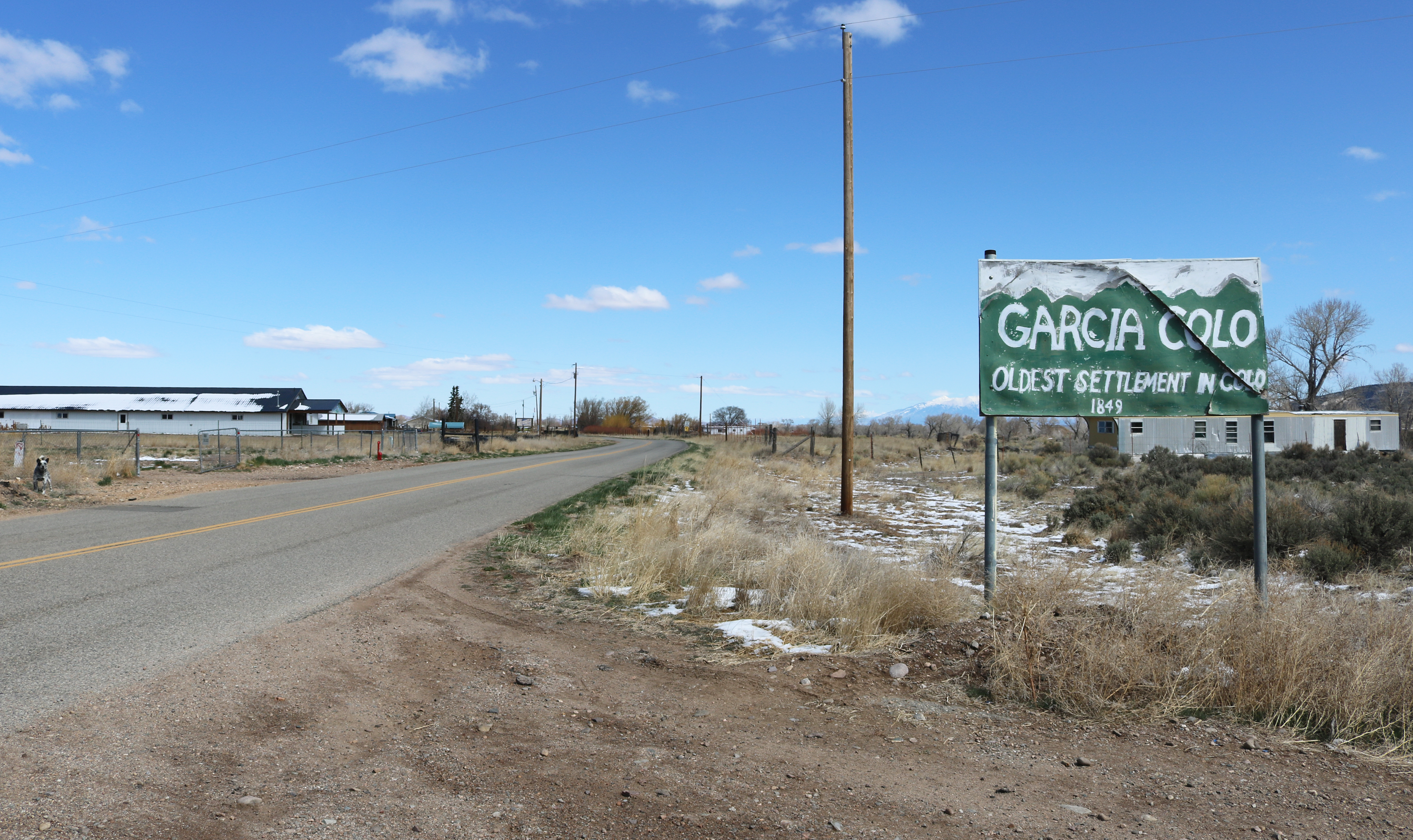 Garcia, Colorado. The view is to the north from Taos County Road 55, which changes at the border to Costilla County Road 13.2. The sign on the right lies right on the border. The photographer is standing in New Mexico; the dog on the left is in Colorado.